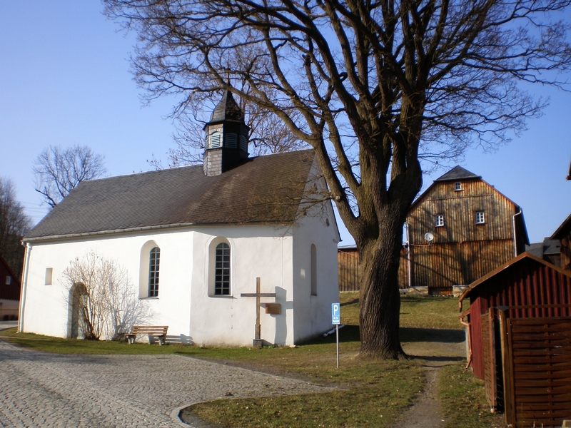 Raun (Bad Brambach), Saxony, Germany, chapel